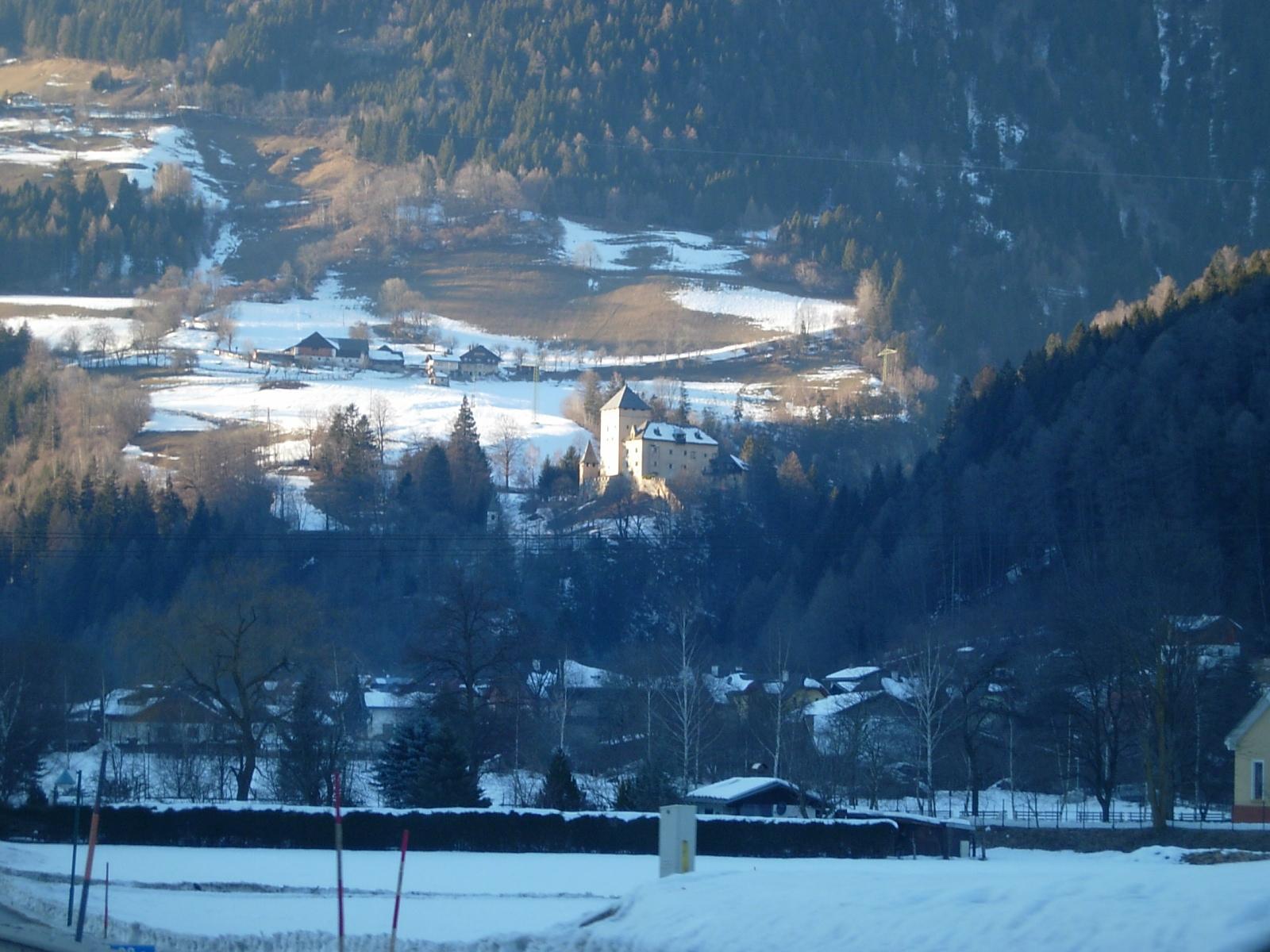 Burg Groppenstein in Obervellach, Carinthia, Austria